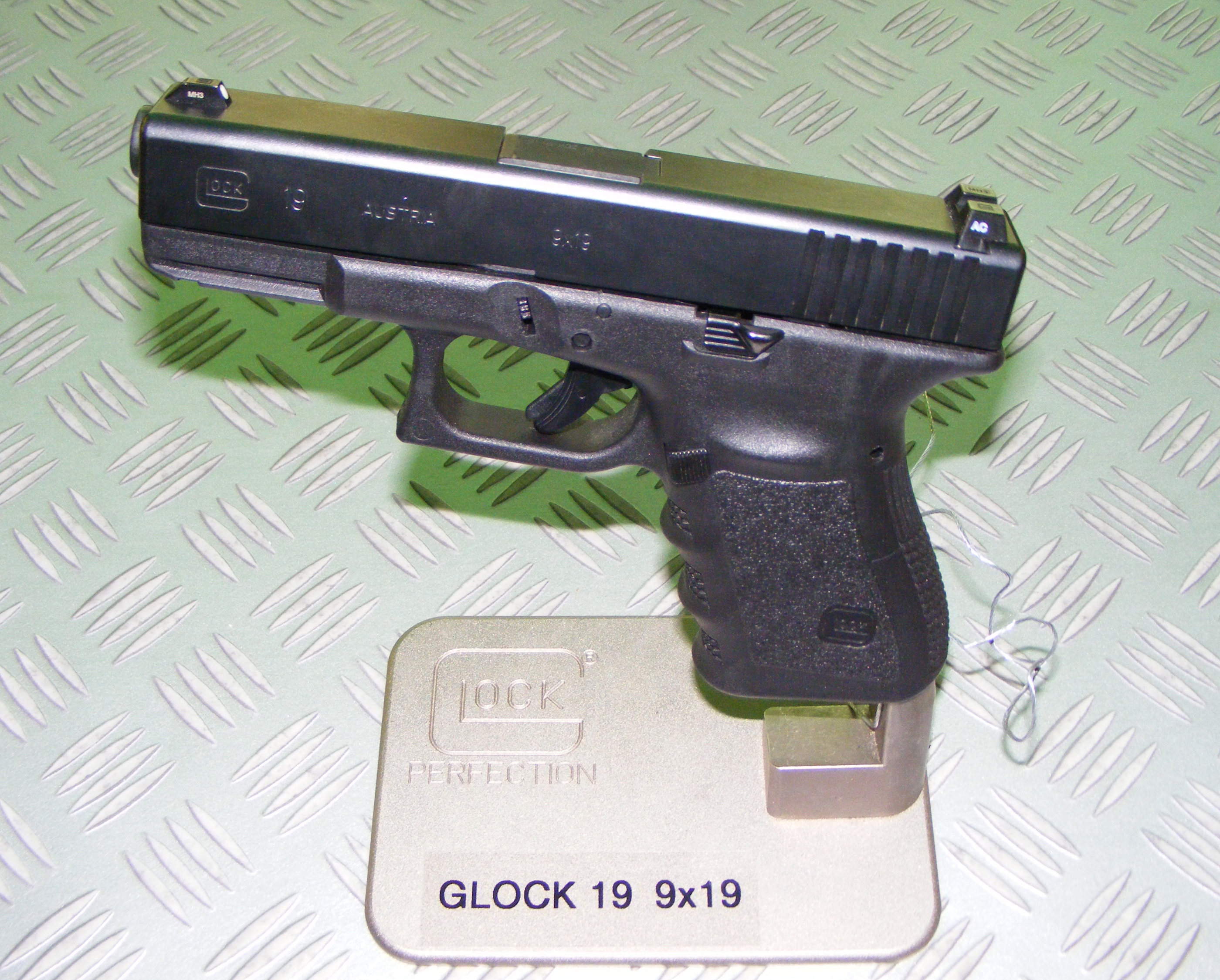 Glock 19